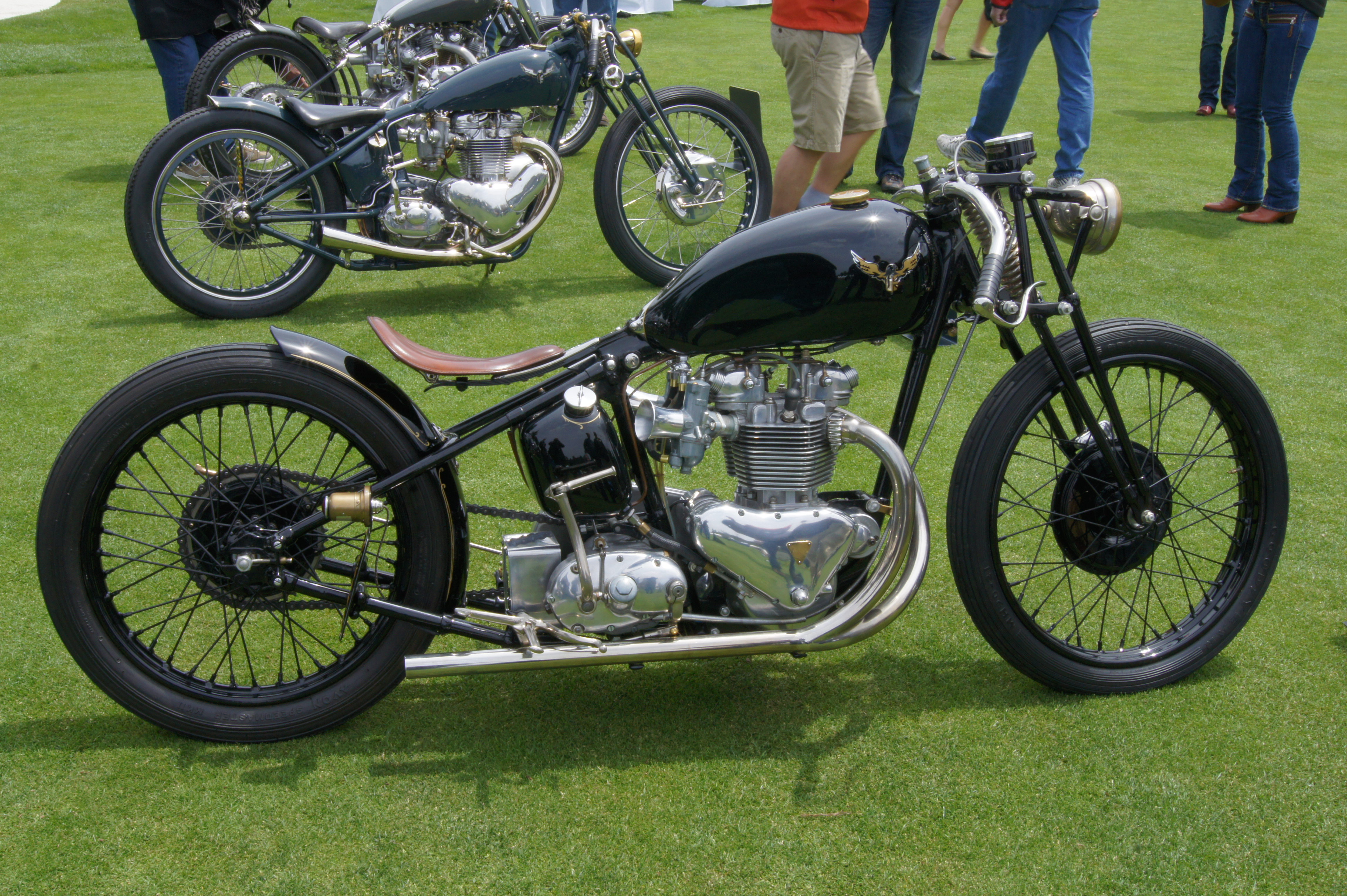 Falcon Bullet and Kestel at Quail Lodge Motorcycle Gathering.